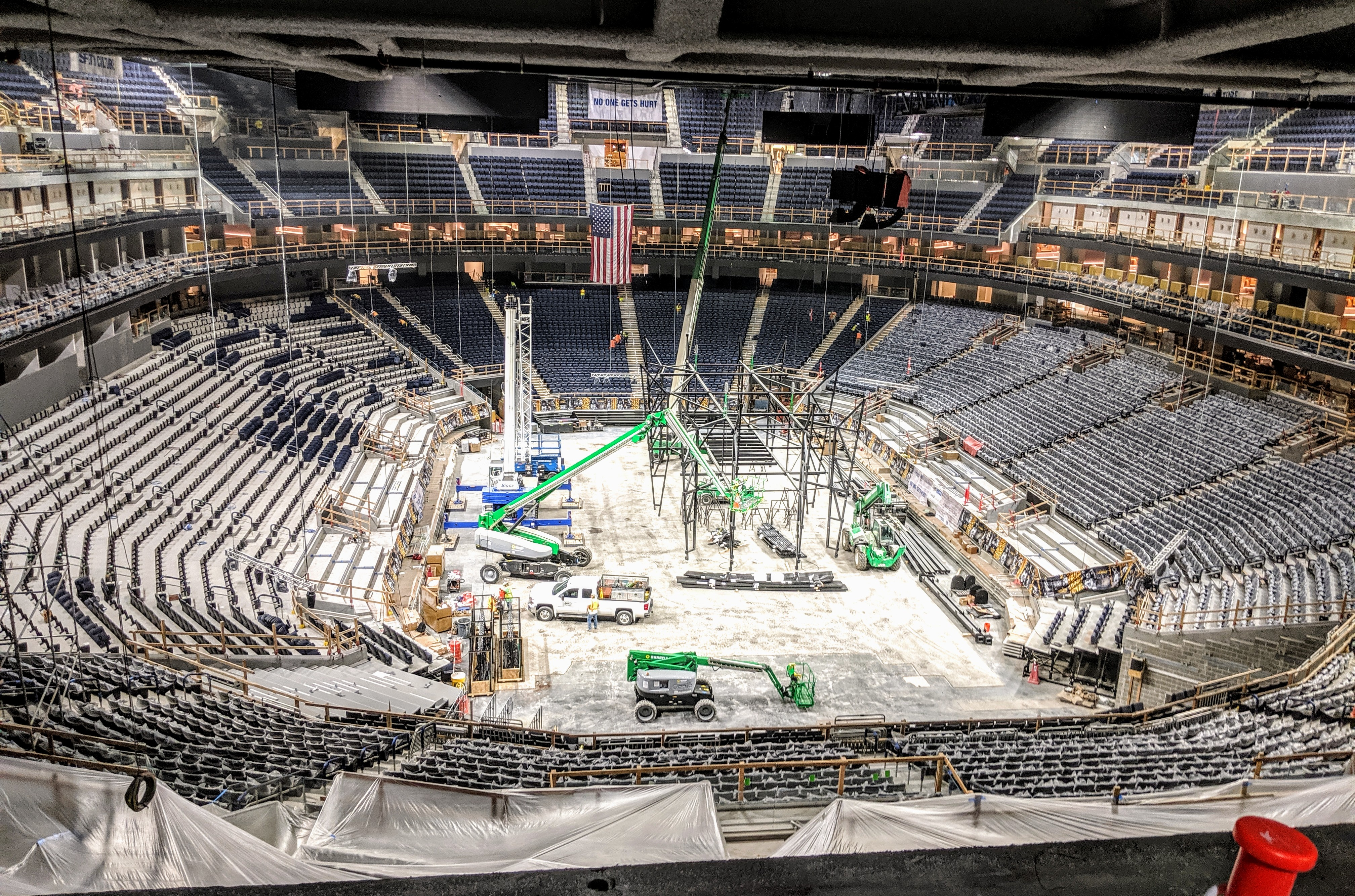 The interior of the Chase Arena in San Francisco, under construction on May 23, 2019. Photo by Jim Heaphy.